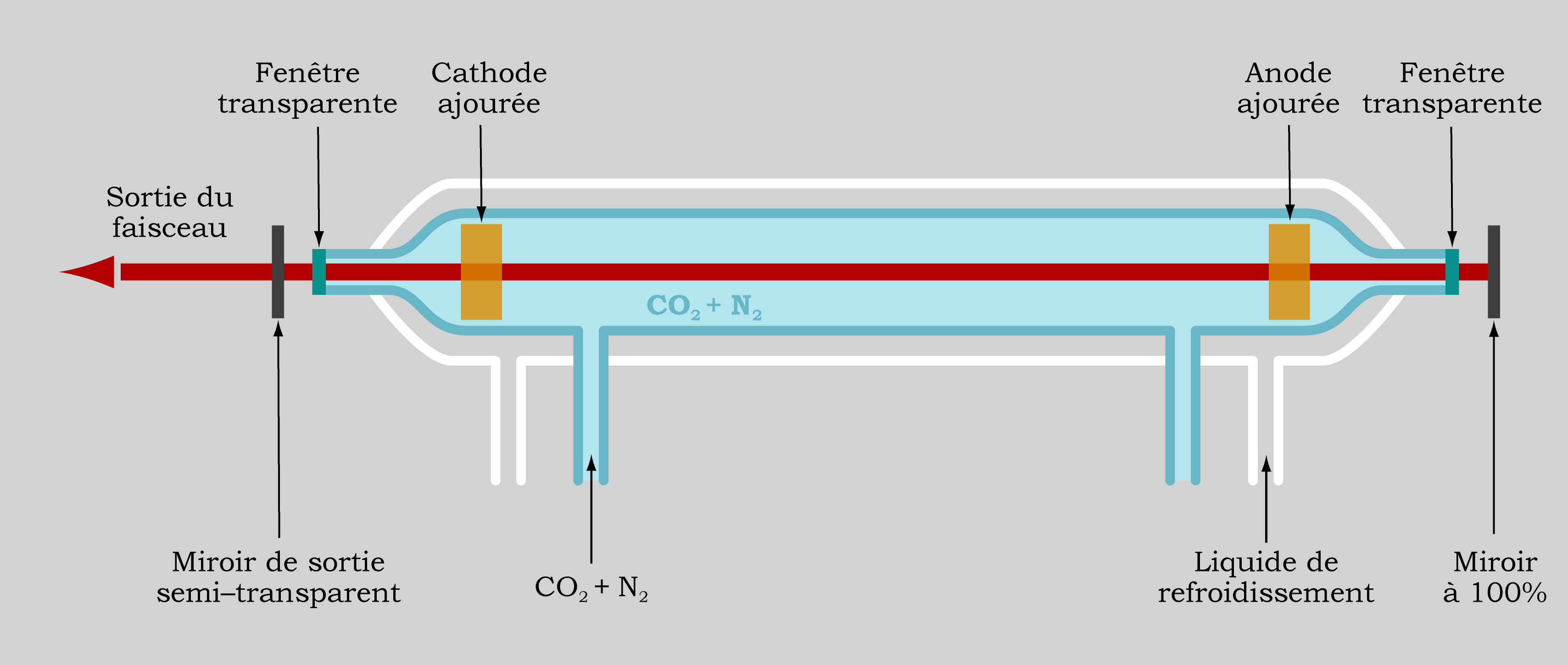 Diagram of a Carbon-Dioxyde Laser (CO2).